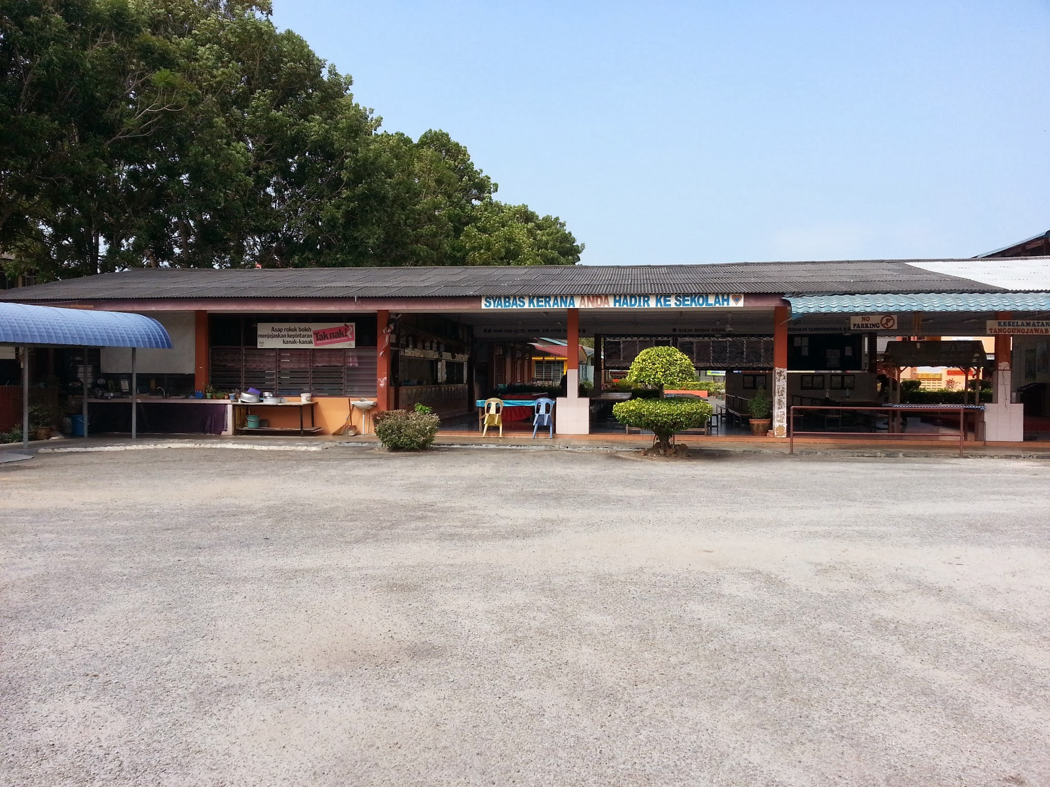 kantin